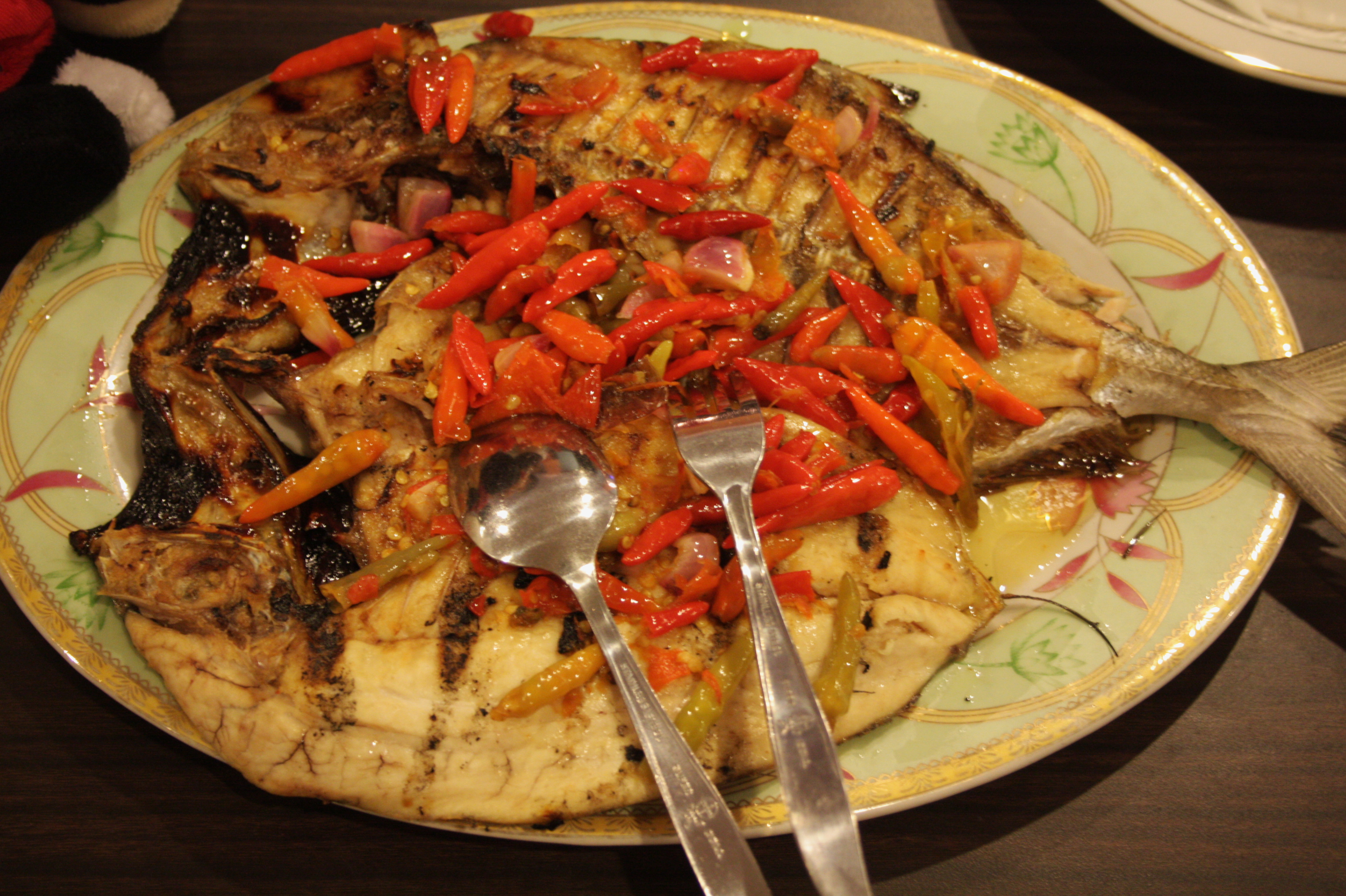 Fish with hot chilly, a culinary from Makassar Indonesia (Indonesia:Ikan bakar rica)